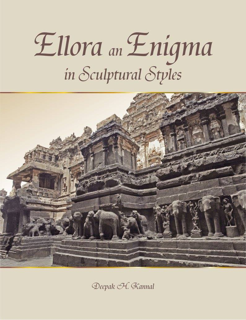 Author - Deepak Kannal